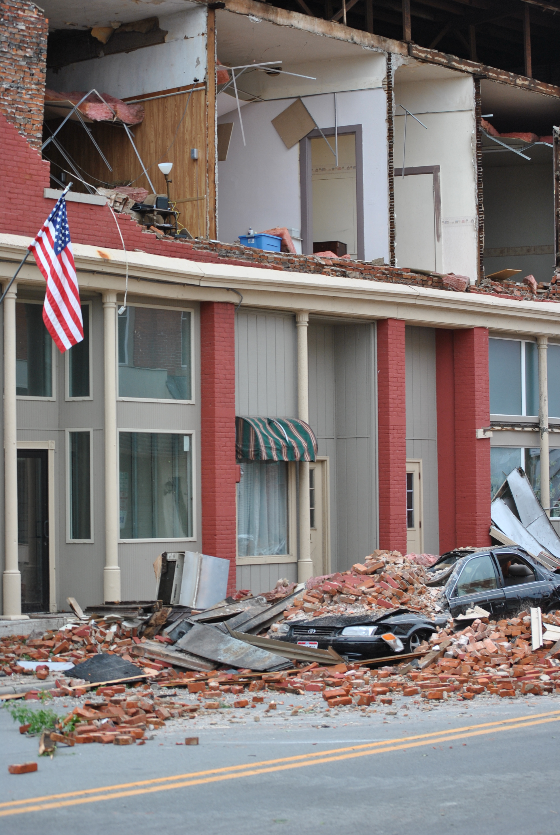 Winds from the June 2012 North American Derecho ripped the wall off of a local business on South High Street in Columbus Grove, Ohio